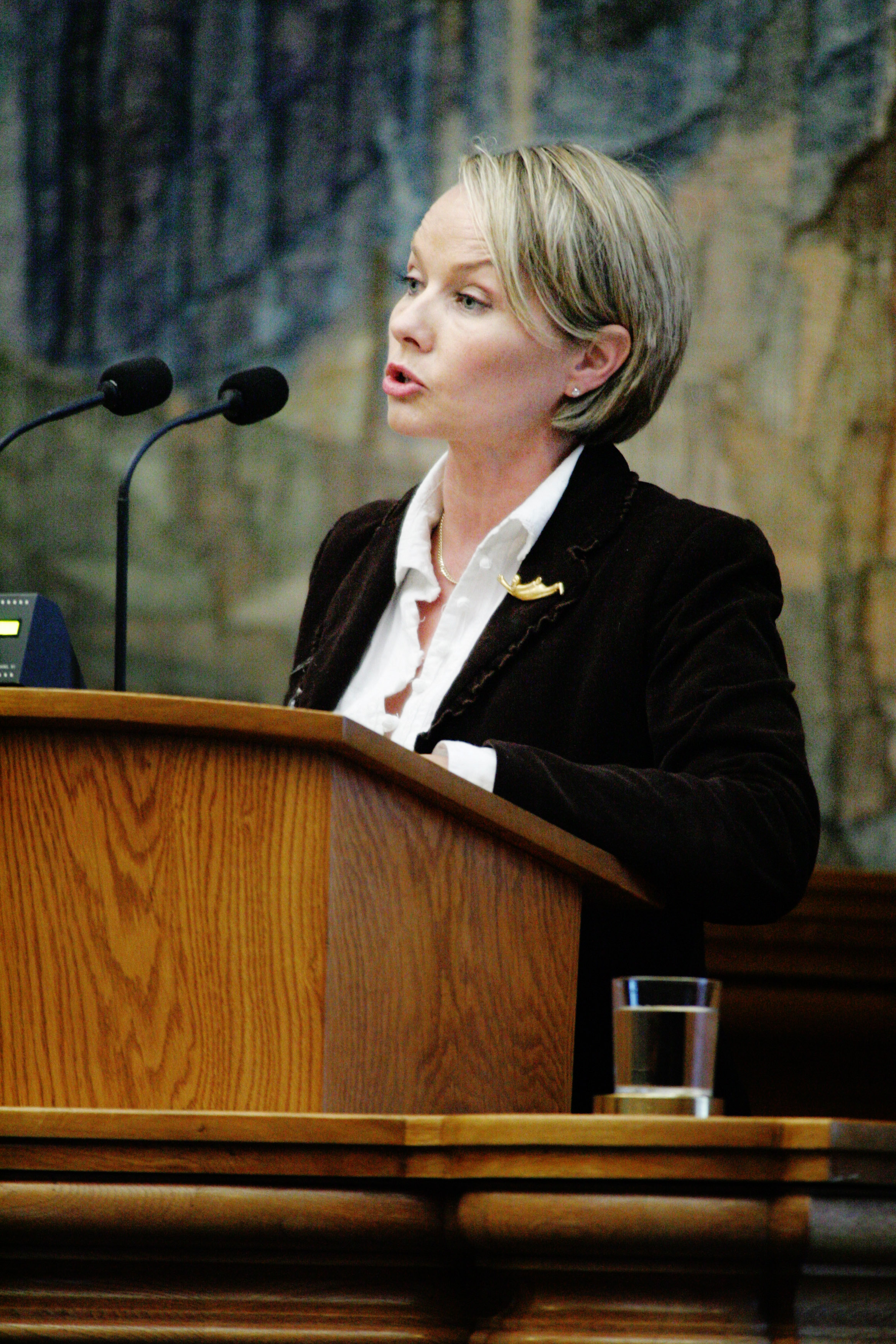 Hanna-Leena Hemming, Finnish politician (National Coalition Party) in Copenhagen